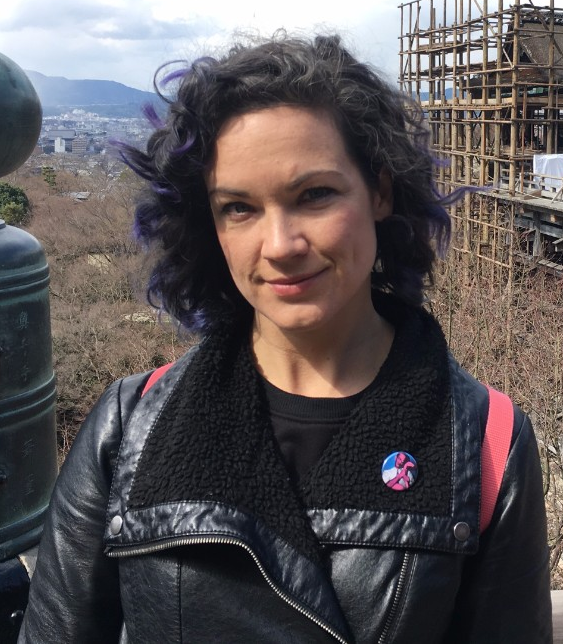 Lucianne Walkowicz